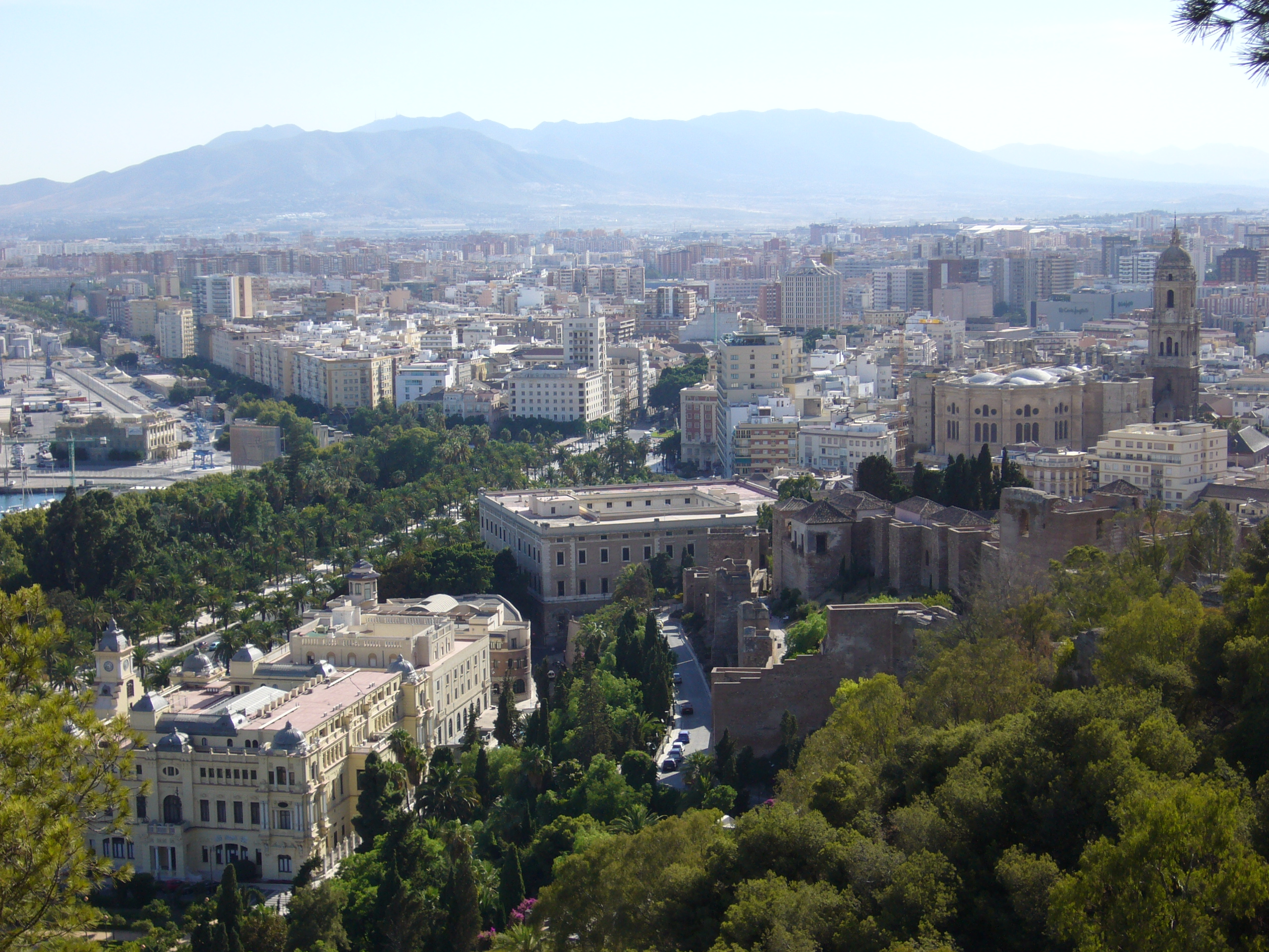 Landscape of Malaga